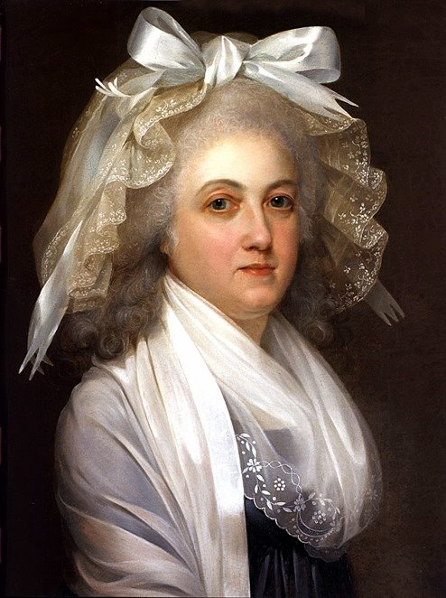 Marie Antoinette at the Temple Tower